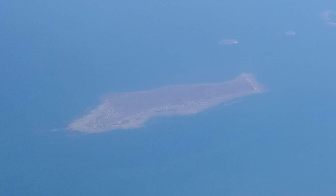 Pulau Gili Raja, an island of Indonesia